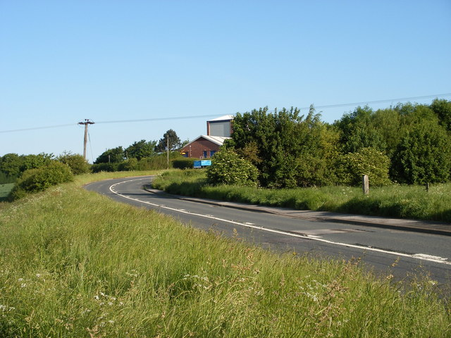 Jaw Hill Looking uphill towards Kirkhamgate water treatment works.